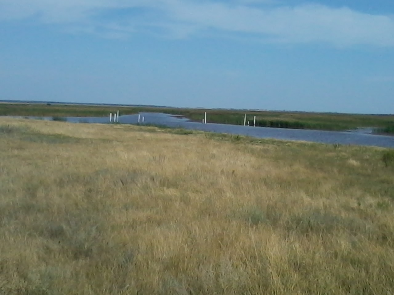 Останки моста п.Метеор